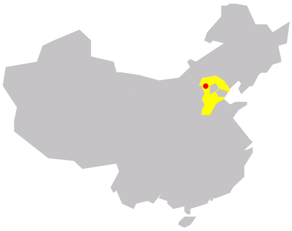 Description: position of Zhangjiakou in China Source: own work Date: December 2005 Author: --Immanuel Giel 12:34, 15 December 2005 (UTC) Other versions: none Zhangjiakou Zhangjiakou Zhangjiakou